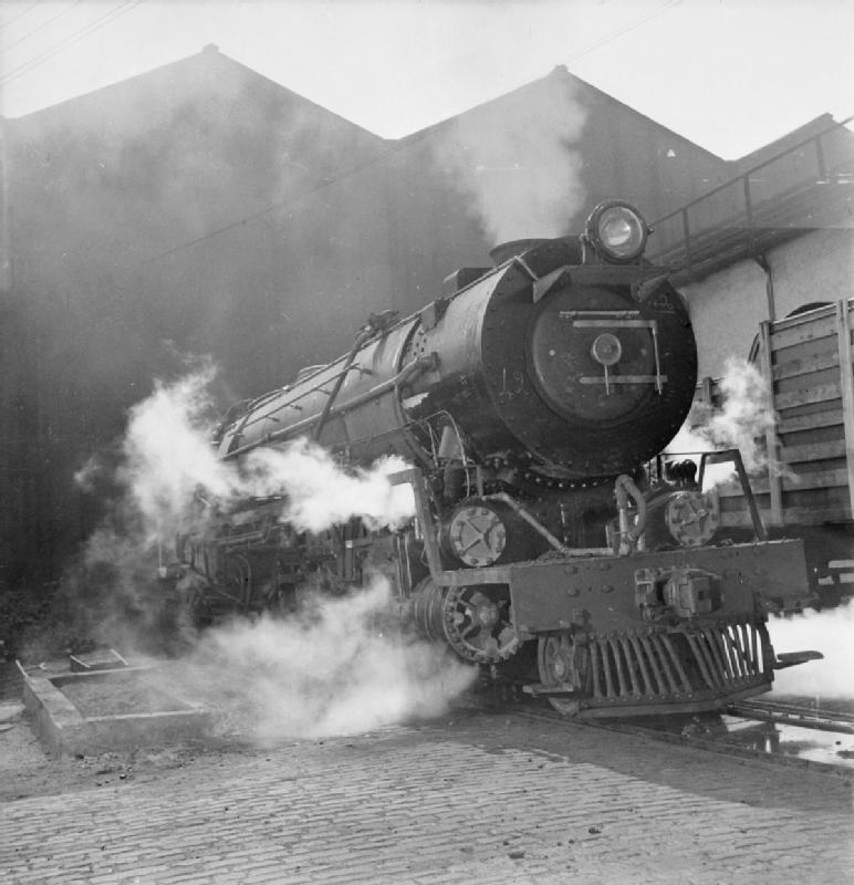 The British Locomotive Building Industry- the Production of Railway Locomotives, UK, 1945 A striking photograph of a South African Railways 3' 6" gauge 15F class locomotive undergoing a final steam test at a workshop, somewhere in Britain. According to the original caption, the engine is a type 4-8-2, and weighs 111 tons 12 cwts.